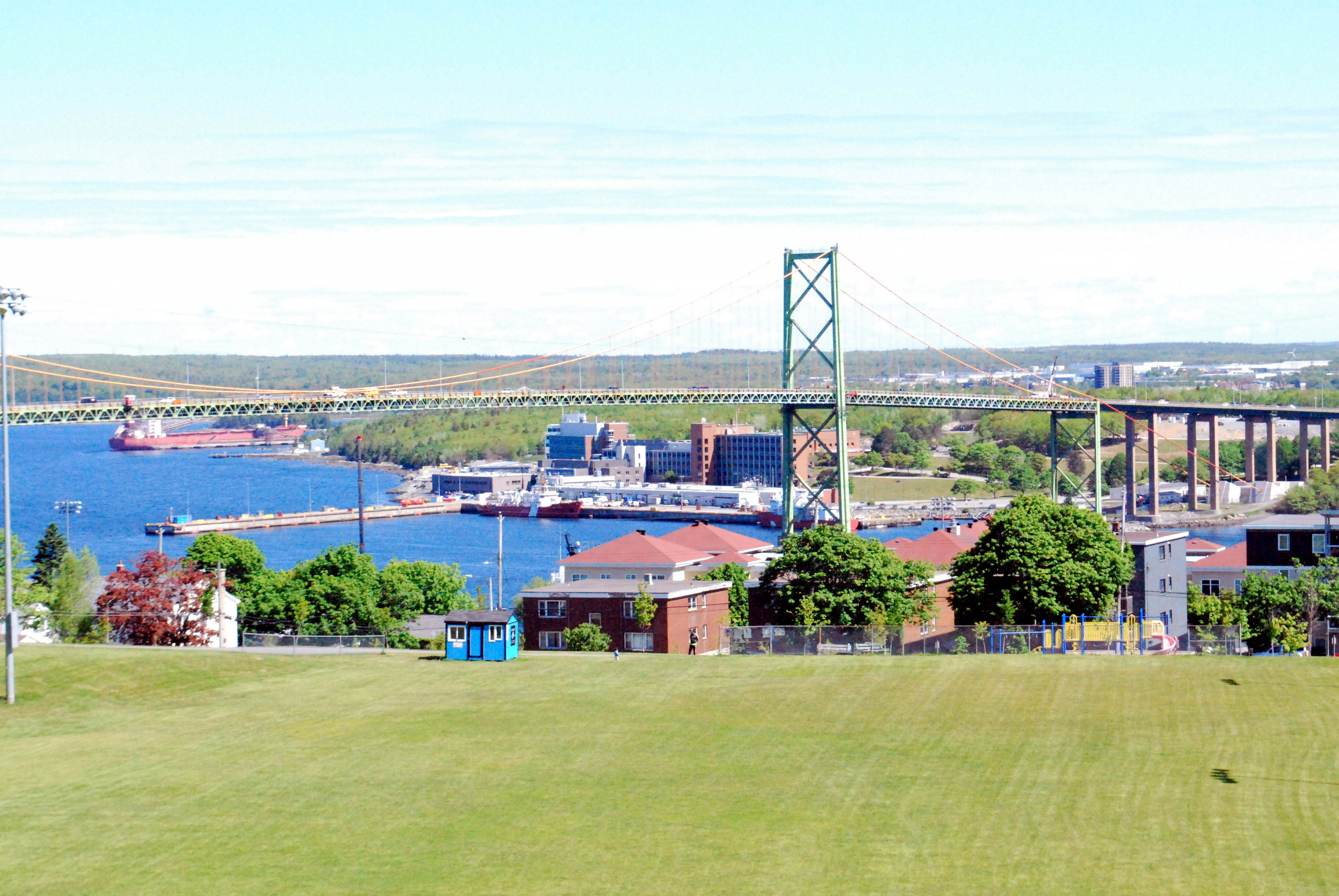 View of MacKay Bridge and BIO/Coast Guard base on the Dartmouth through the North End's Merv Sullivan Park, Halifax